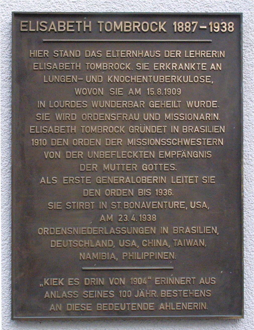 Plaque on the Retirement home "Elisabeth-Tombrock-Haus", Oststraße 25, Ahlen, North Rhine-Westphalia, Germany.